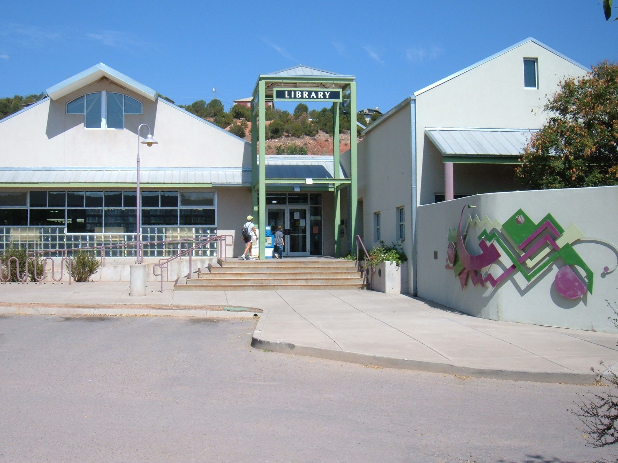 East Mountain branch library of Albuquerque/Bernalillo County Library System, located in Tijeras, New Mexico.